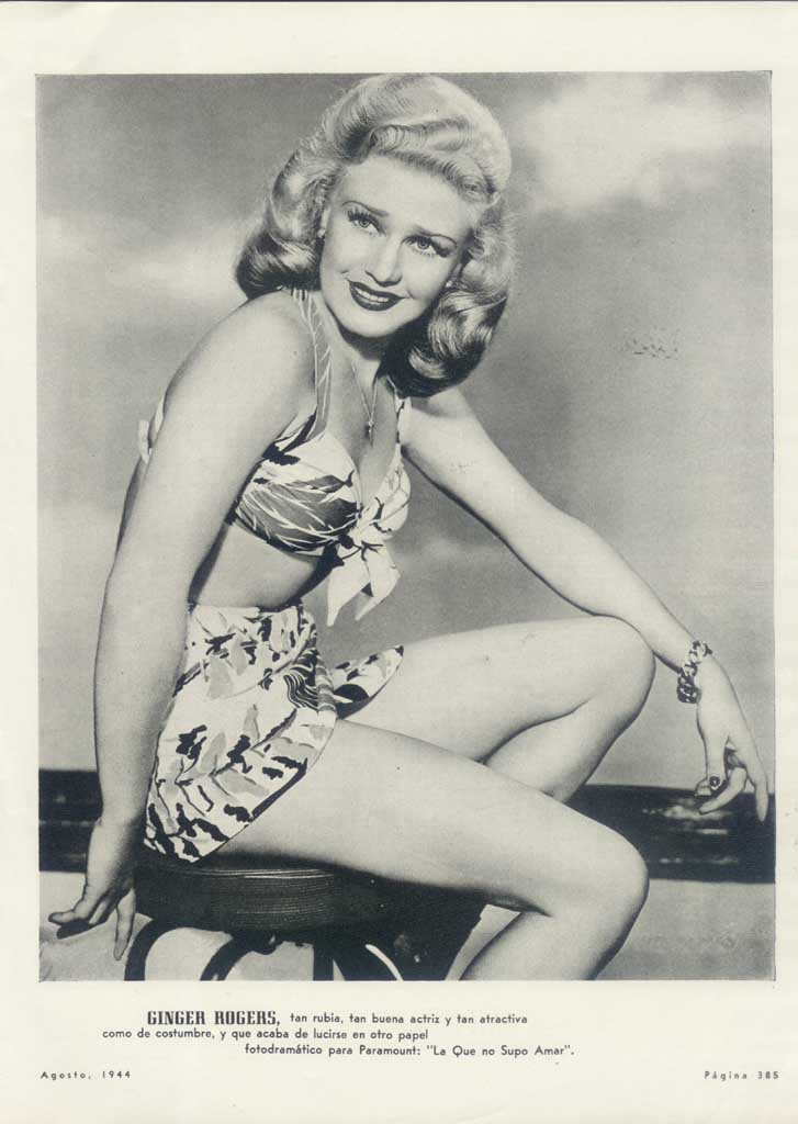 Publicity photo of Ginger Rogers for Argentinean Magazine. (Printed in USA)